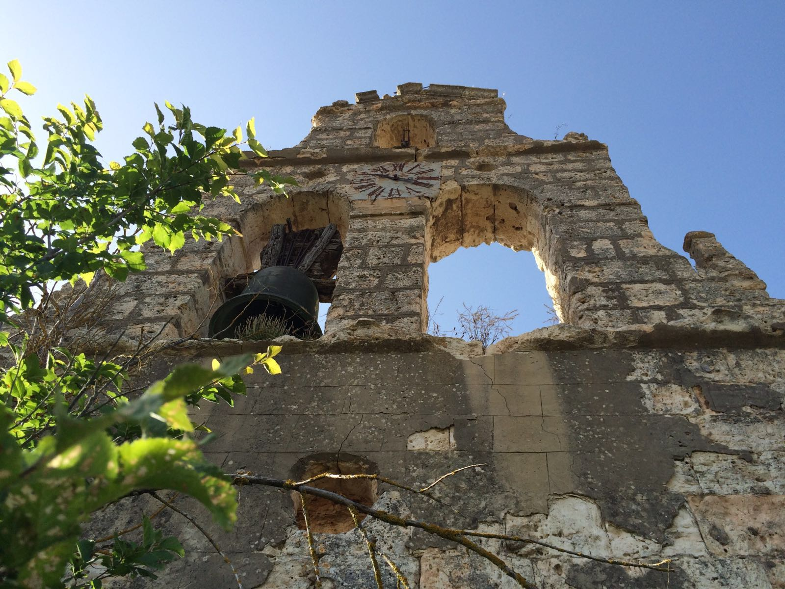 Este es el campanario de la Iglesia de Quintanilla del Monte en Juarros, Burgos.